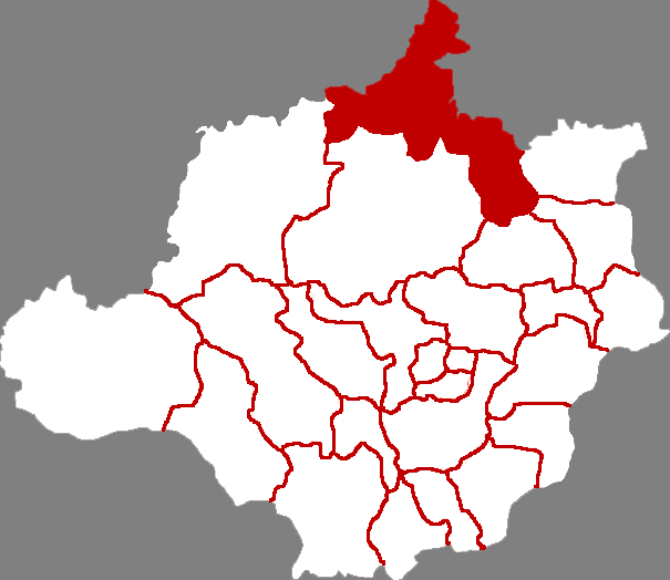 Location of Laishui county in Baoding City, China